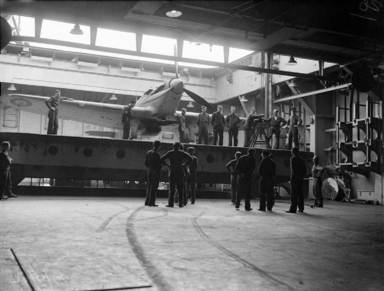 Inside the hangar of the Royal Navy escort carrier HMS Avenger (D14), showing the lift bringing down a Hawker Sea Hurricane of 802 Squadron, Fleet Air Arm from the deck. Several mechanics are stood on the lift and in the hangar to move the aircraft into position.